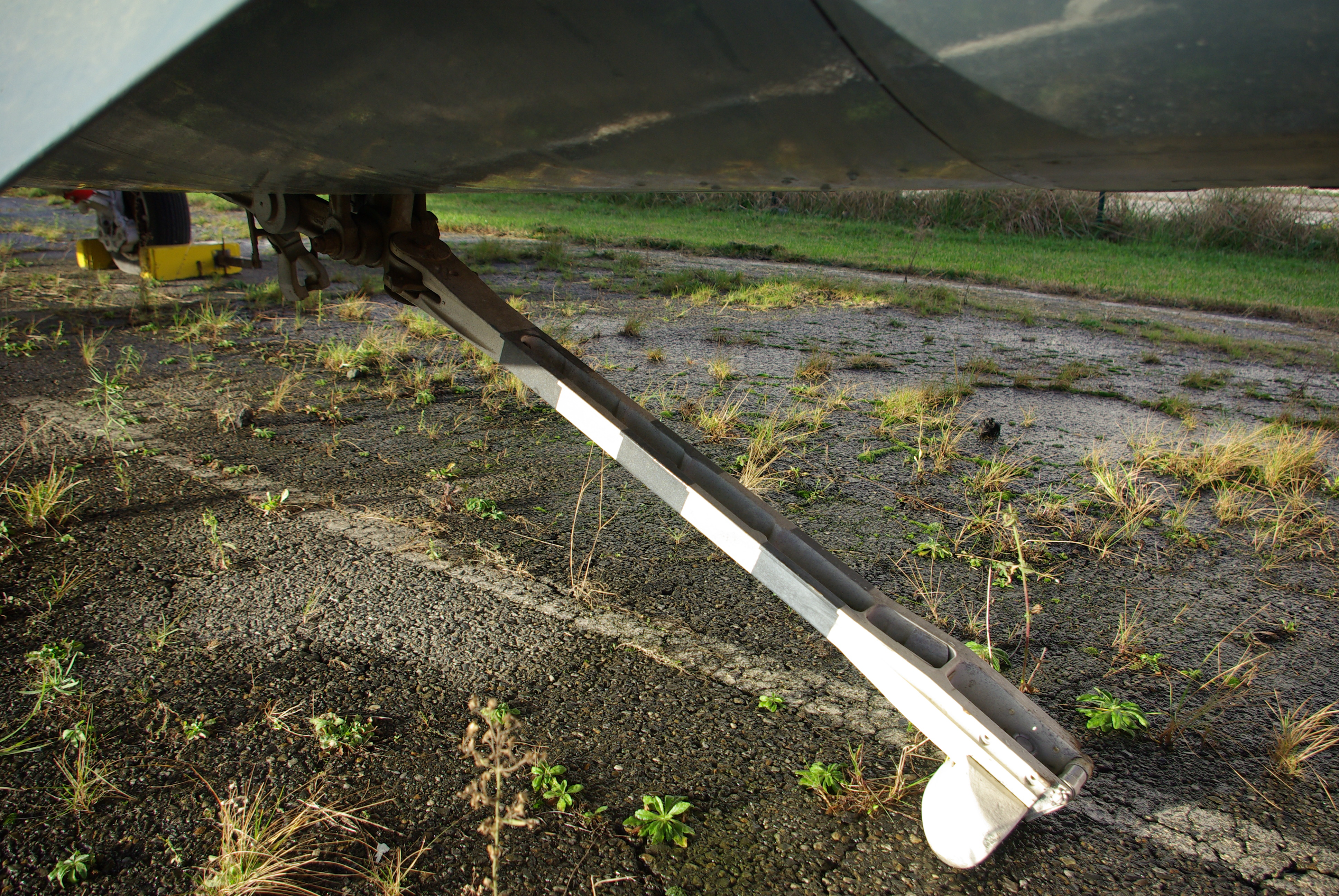 Tail hook of a French Crusader.